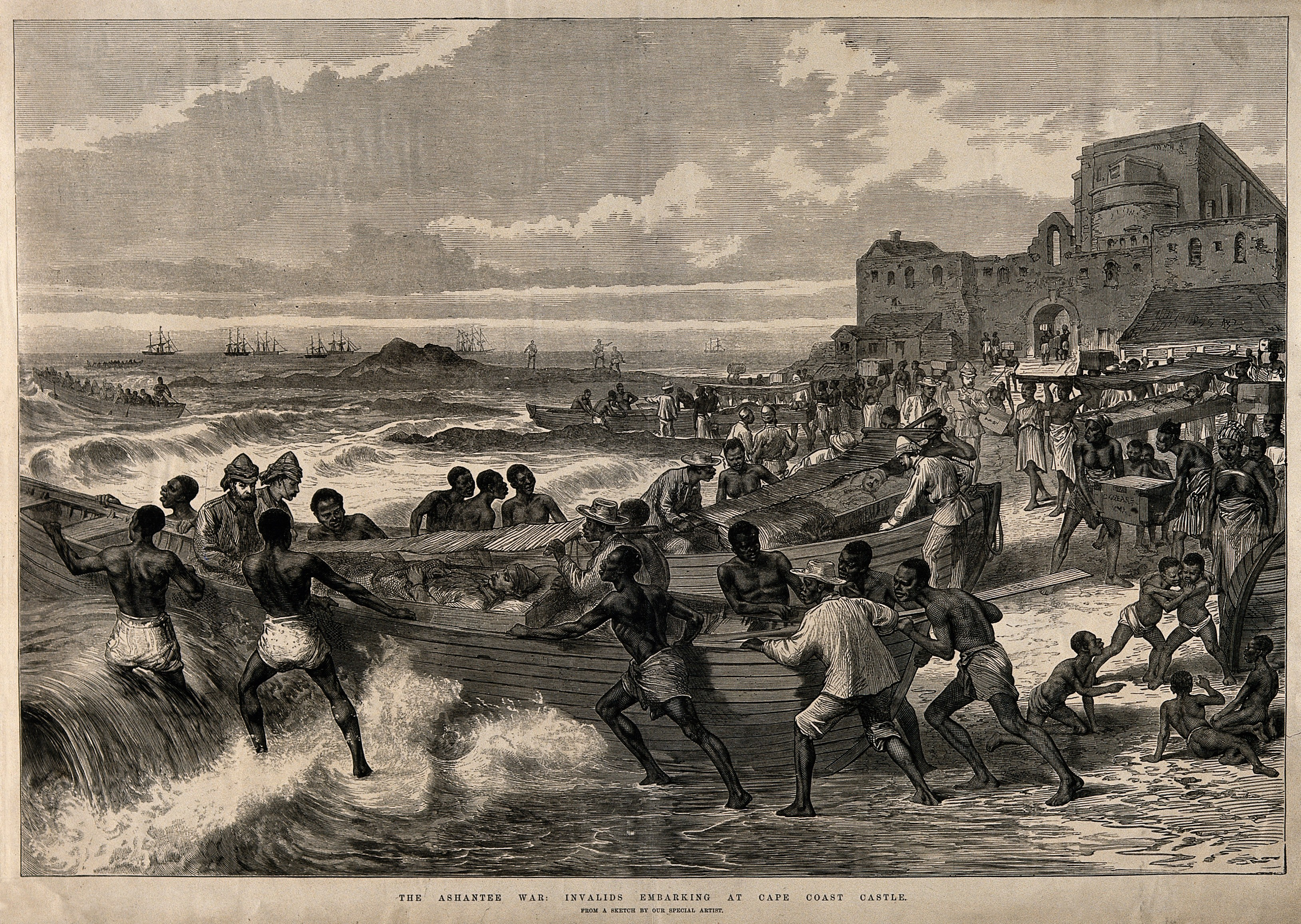 Cape Coast, Ghana: wounded soldiers going out to hospital ships during the Ashantee War. Wood engraving. Iconographic Collections